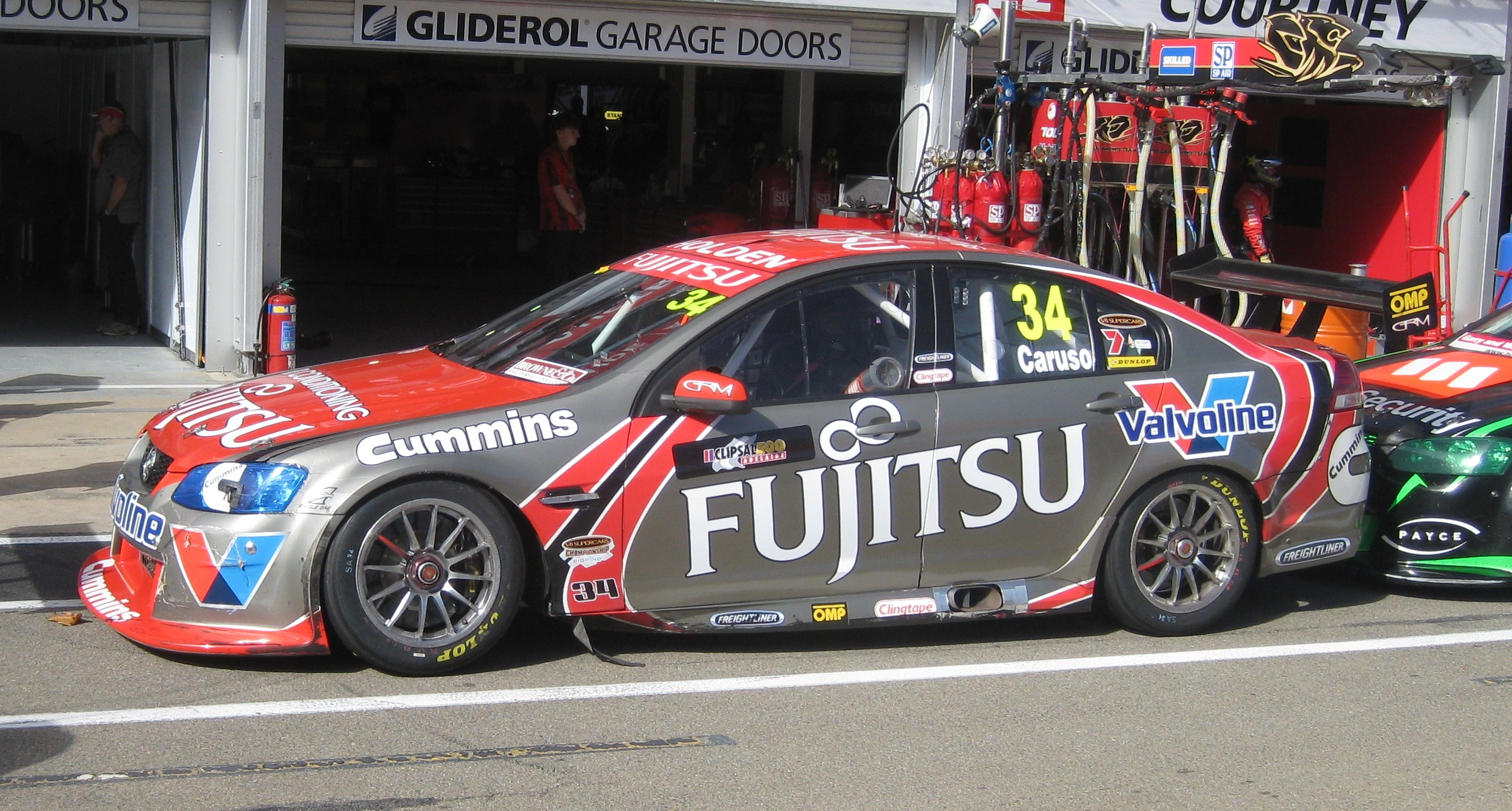 The Fujitsu Racing GRM entered Holden VE Commdore of Michael Caruso at the 2012 Clipsal 500 Adelaide.